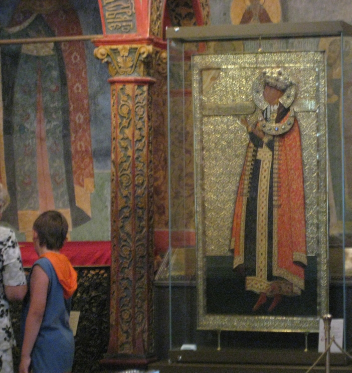 Icon of Tsarevitch Dmitrij in Cathedral of the Archangel in Moscow. On the left: people looking at his grave./// Икона "Царевич Дмитрий", слева могила царевича.